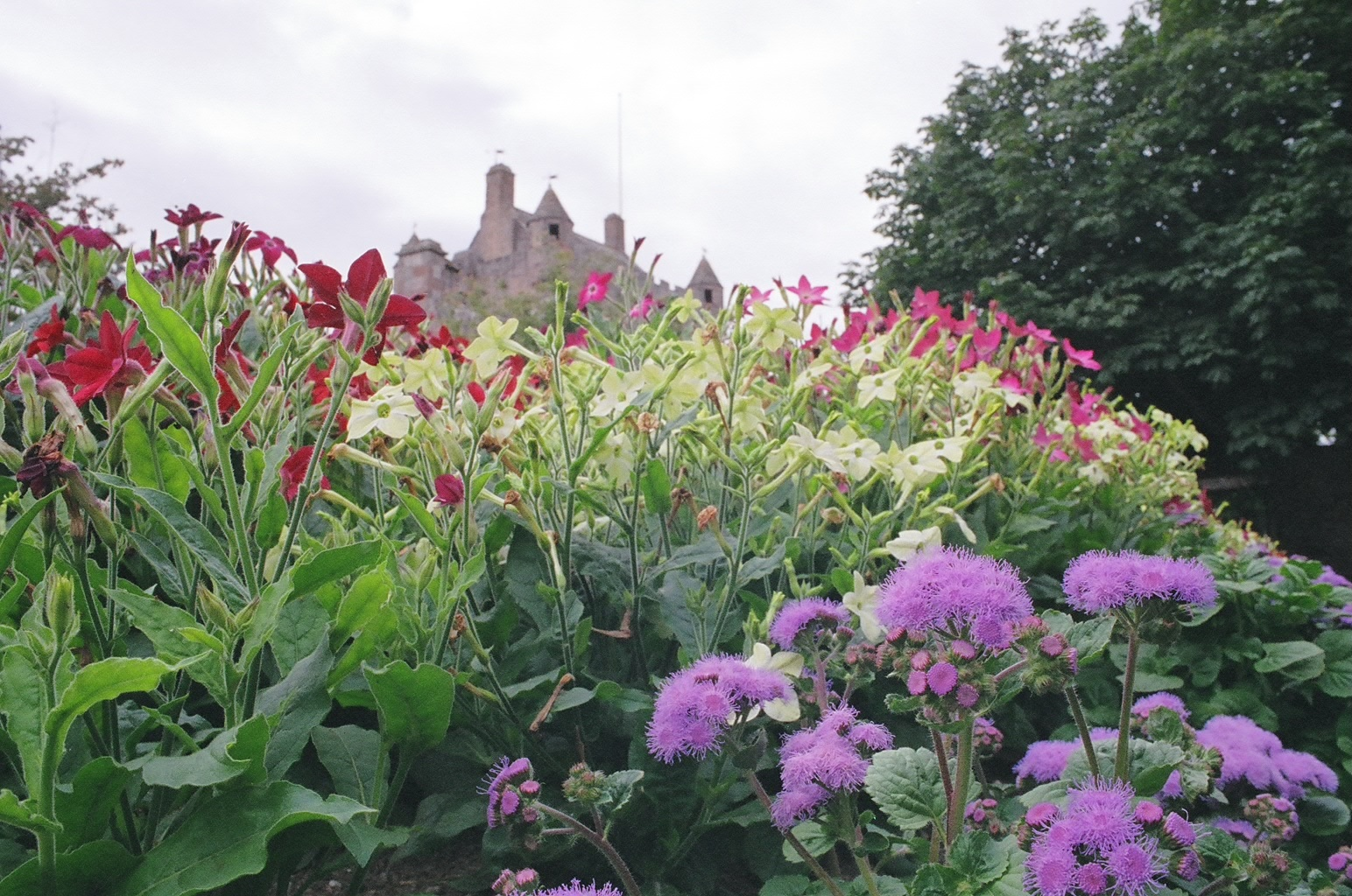 Gardens of Cawdor Castle, Scotland